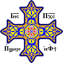 Coptic Cross in png format